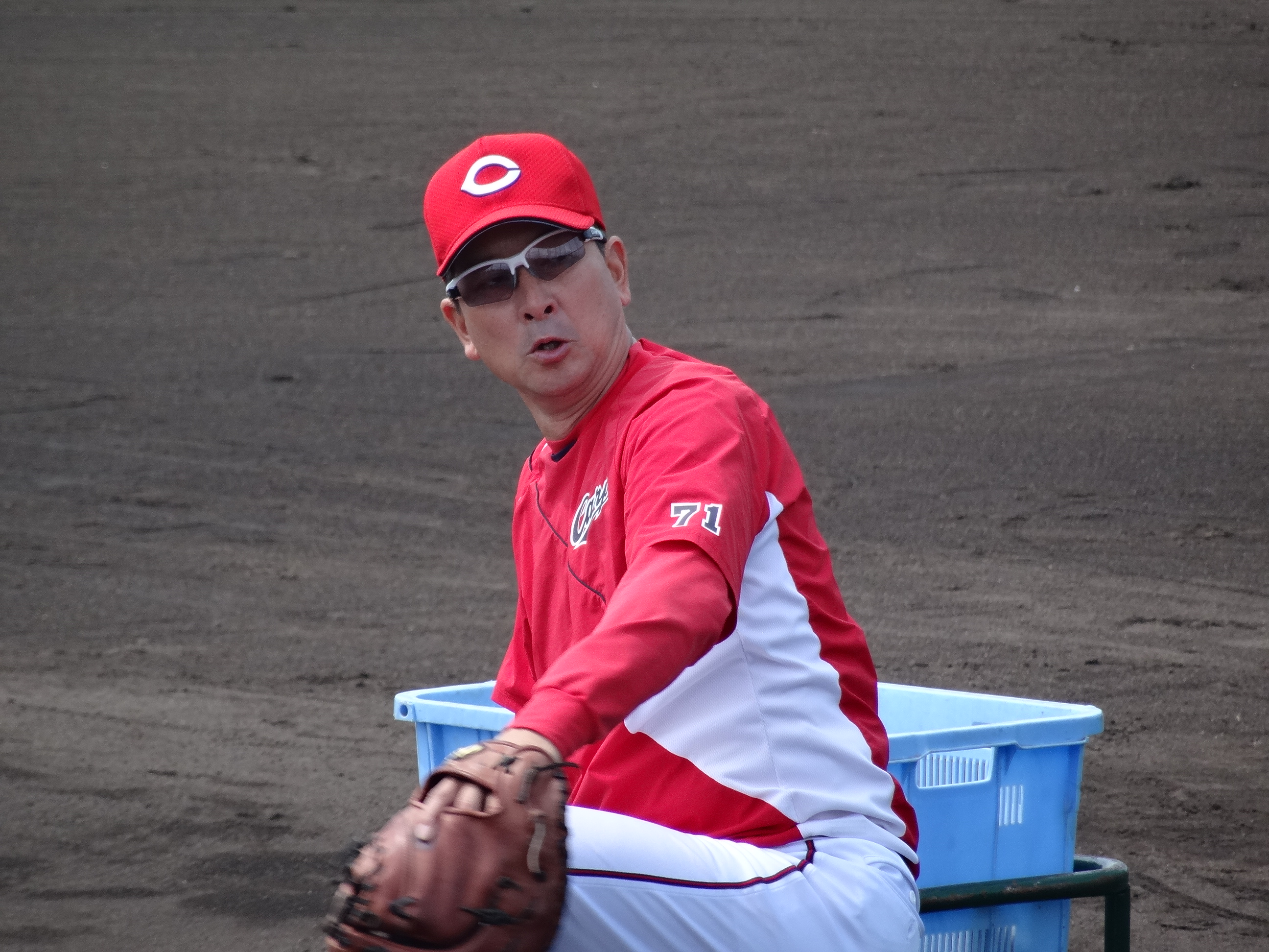 Shinji Koh, manager of the Hiroshima Toyo Carp's farm team, at Hanshin Naruohama Baseball Ground.